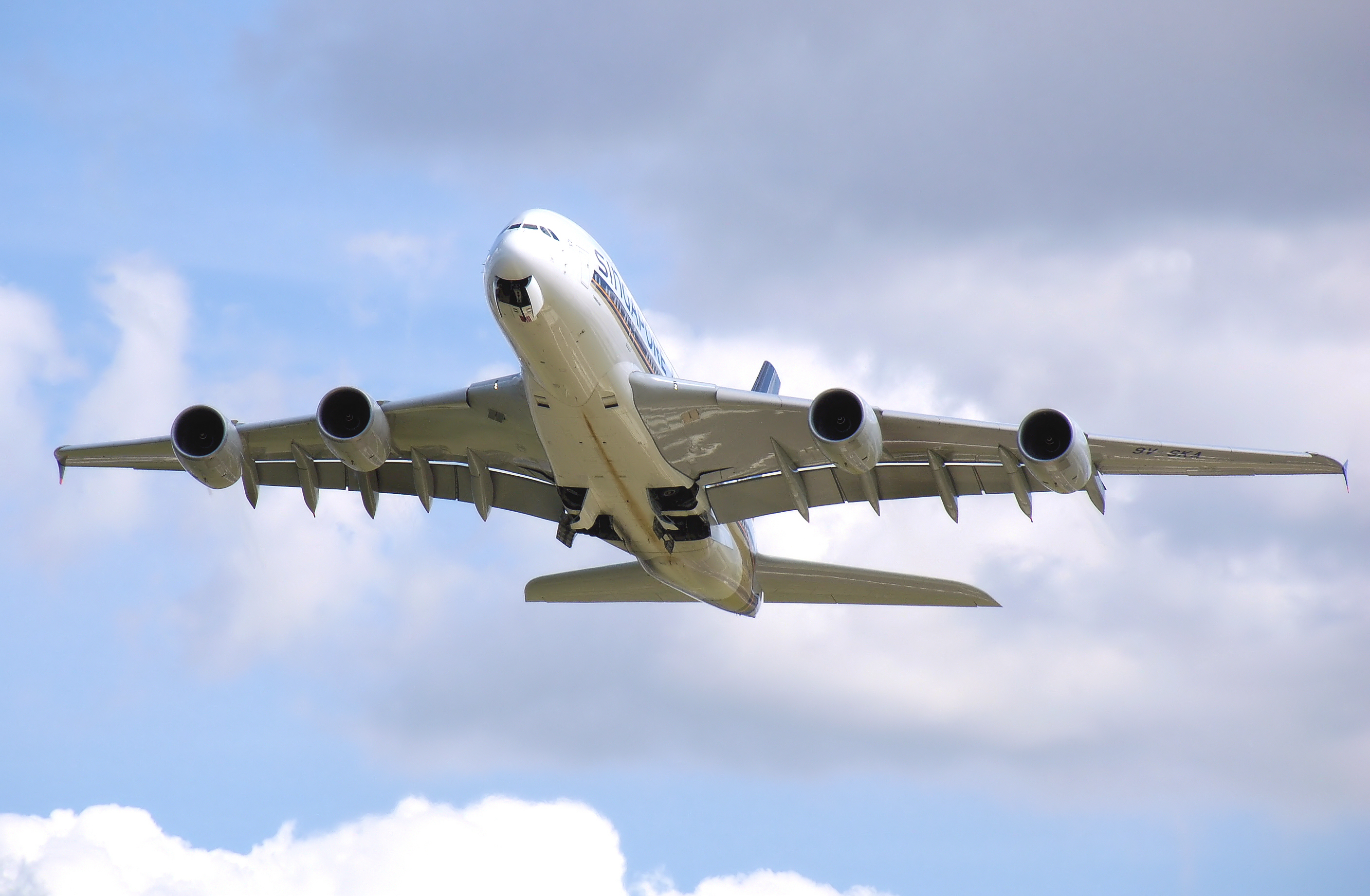 Singapore Airlines Airbus A380 (9V-SKA) takes off from London Heathrow Airport, England. The main and nose undercarriage doors have not yet retracted.